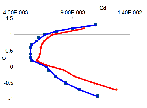 Drag polar of NCA633618 airfoil. Data from Abbott and Doenhoff, Theory of Wing Sections.